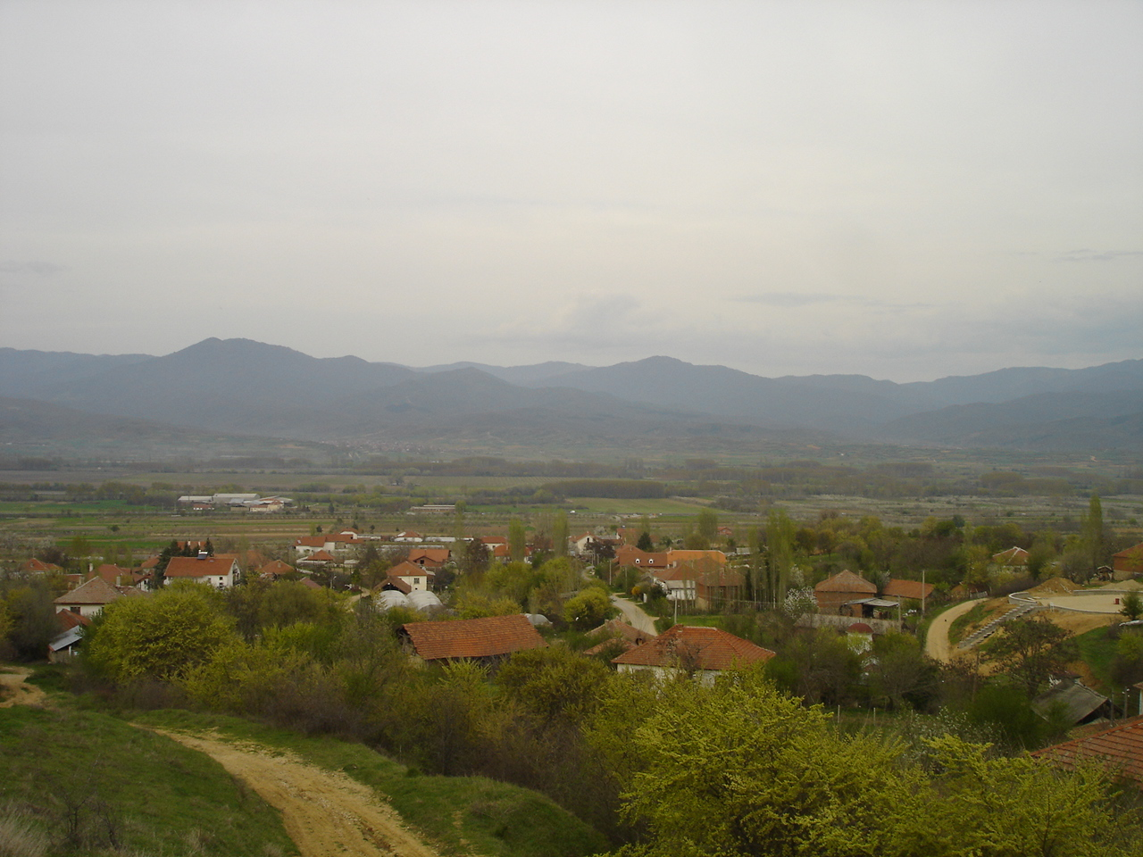 View of the village Suldurci, near Radoviš, Macedonia